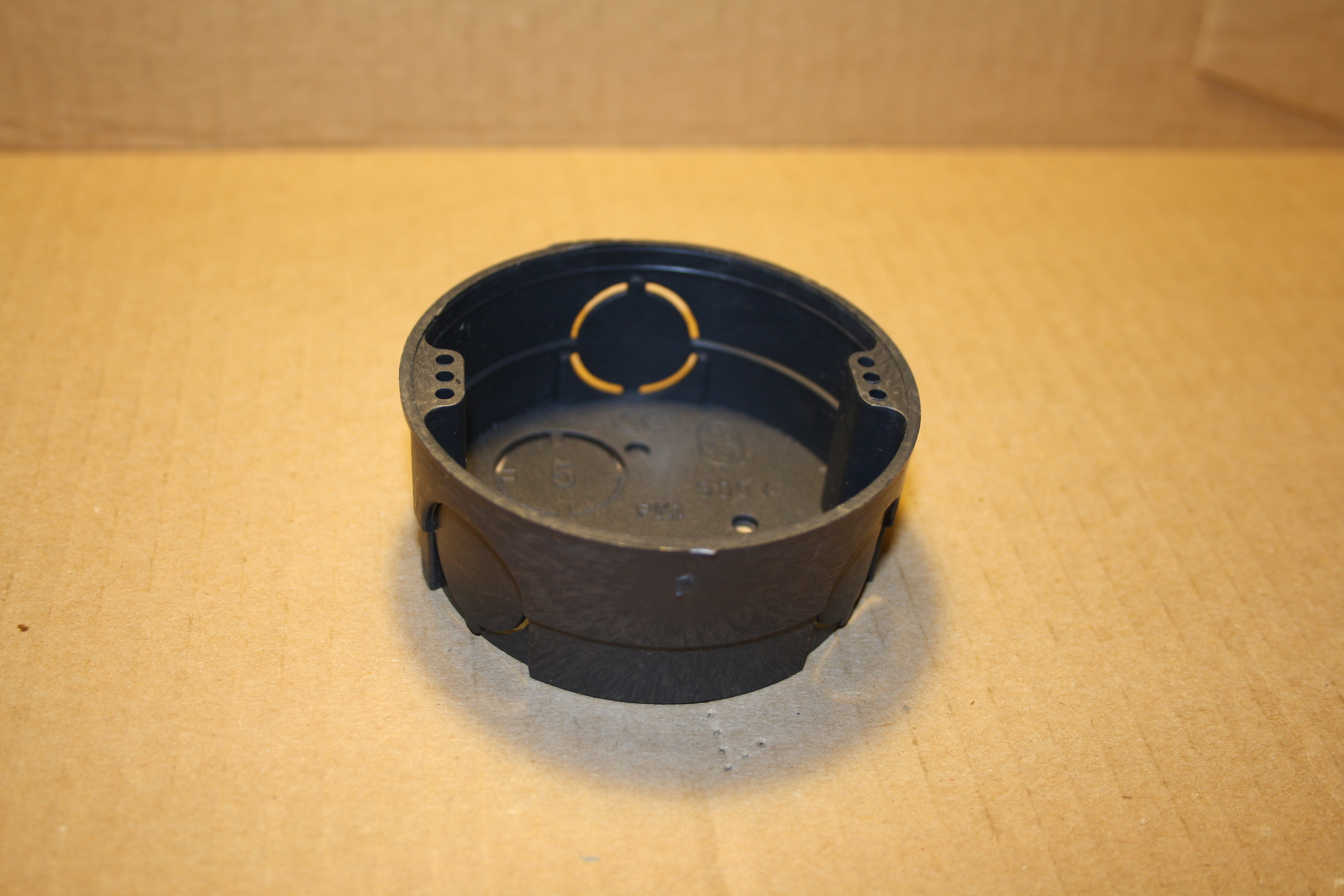 Electrical instalation box